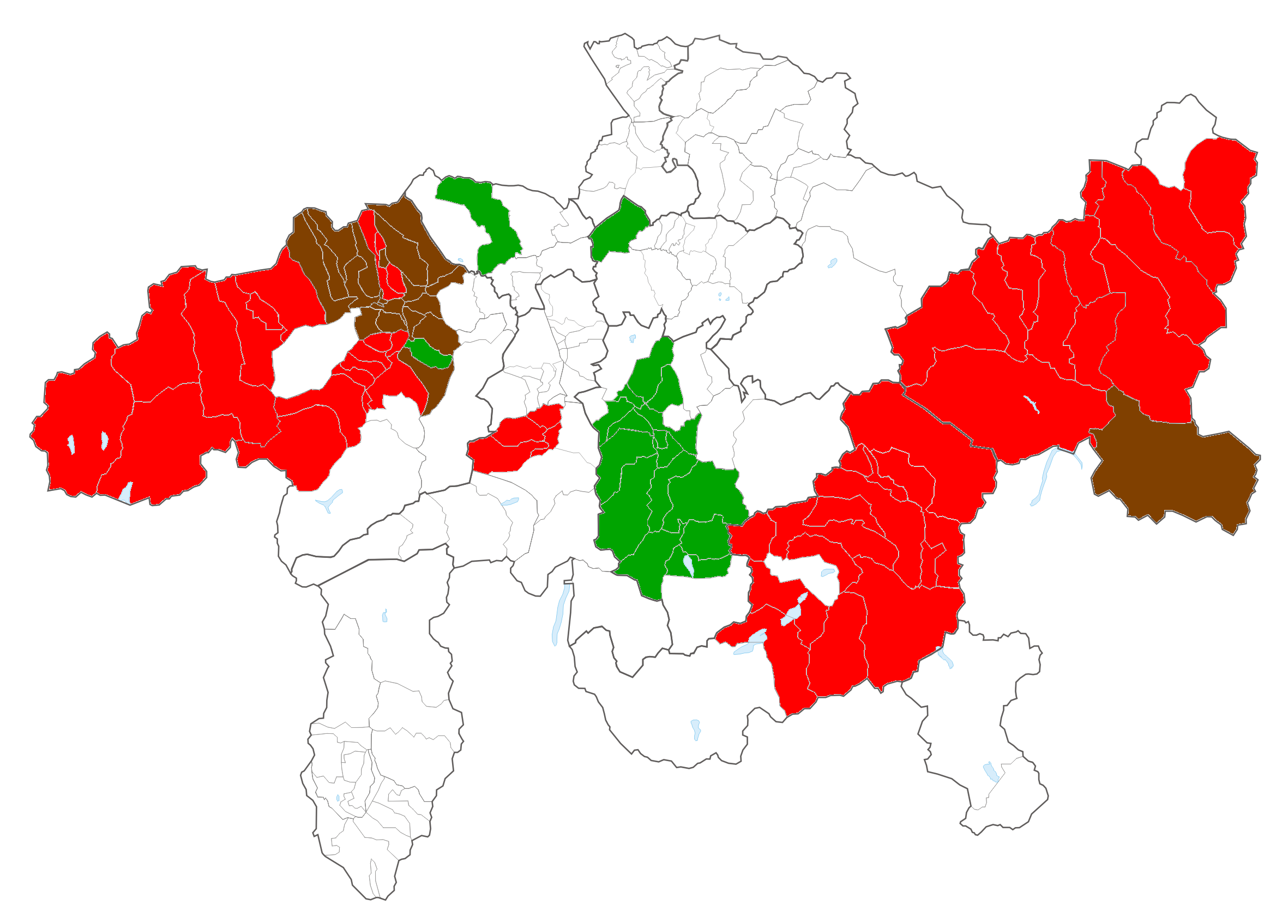 Municipalities in the Canton Grisons which as of 2010 use Rumantsch Grischun as the language of schooling (green), those which use a regional idiom (red), and those which previously used Rumantsch Grischun but have since decided to return to a regional idiom (brown)